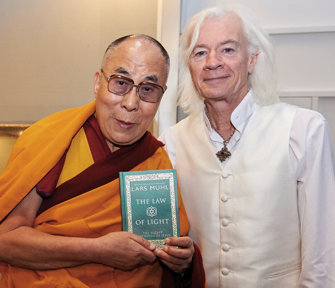 A meeting between the Danish author Lars Muhl and Dalai Lama